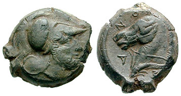 Etruria. Cosa. Circa 273-250 BC. Æ Quartuncia (5.08 gm). Bearded head of Mars right, wearing crested Corinthian helmet [CO]-Z-A-NO, bridled head of a horse left, resting on a dolphin swimming left. Buttrey, "The mint of Cosa," in Memoirs of the American Academy in Rome 34, 1980, Type I, 5-8; BMC Italy pg. 69, 3 var. (horse head right); SNG Copenhagen 17; SNG Morcom -; Laffaille -. Good VF, choice green patina. Rare. "The bronze coinage of the Latin colony of Cosa in Etruria and its parallel issue at Rome (Cr. 17/1a-i) have since the 19th century been termed litrae and half-litrae, Etruscan gold and silver denominations with marks of value being described as multiples of litrae. This state of affairs has lead to confusion for it had no justification in the observed behaviour of the 3rd century central Italian economy. The ancient use of the word litra, a Greek term for a Sicilian bronze unit, in the context of a purely Romano-Etruscan coinage without any contemporary parallel in Italy, seems unlikely and certainly not of contemporary usage. It may be better to describe this interesting military issue in Roman weight terms and monetary units with their customary nomenclature. From c. 270-240 BC the weight standard of the Romans fluctuated at around 270 g. (10 unciae) indicating ± 6.75 grams as the theoretical weight of the quartuncia, comfortably accommodating the Rome and Cosa bronzes which range between about 5 and 8 grams."